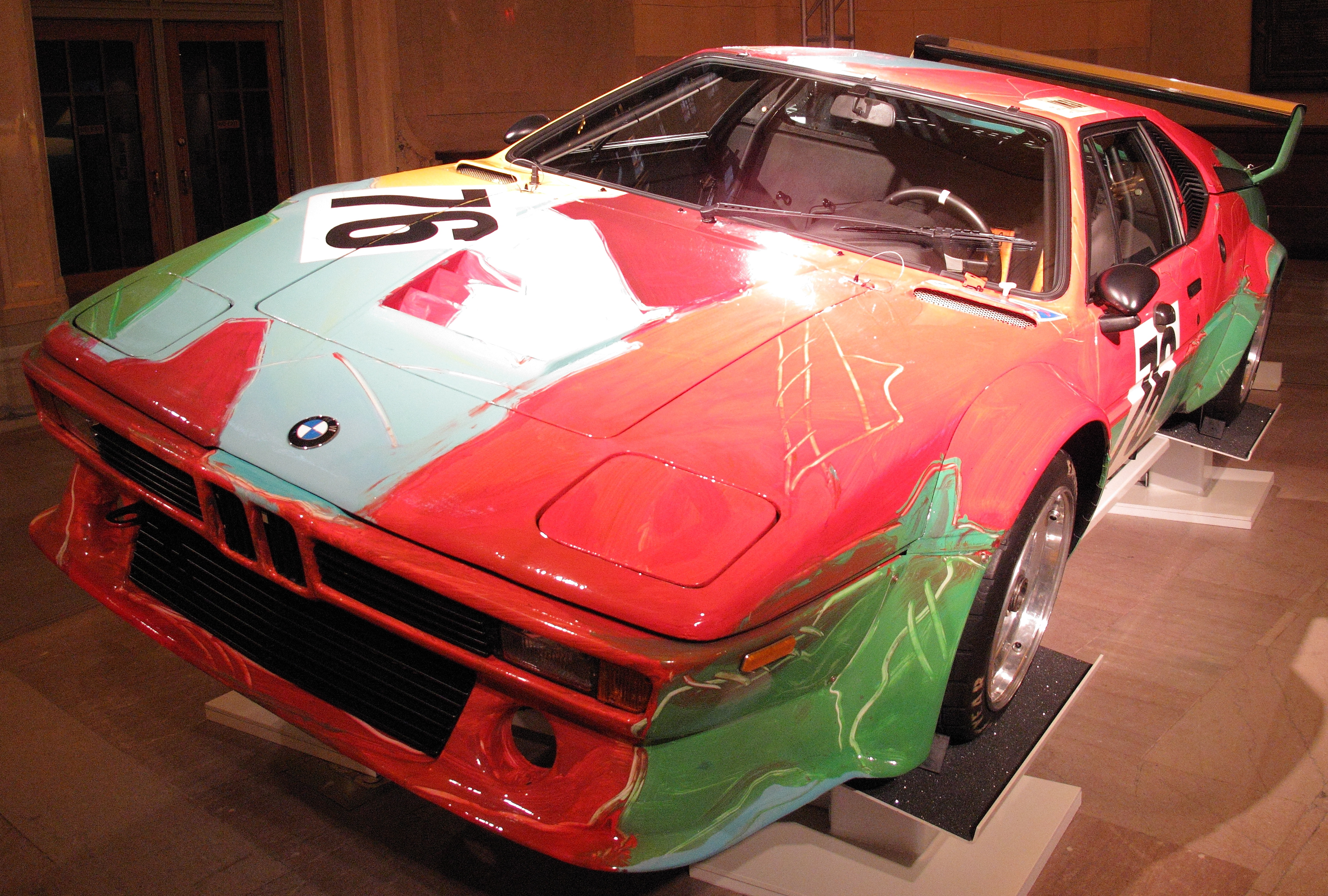 1979 BMW Group 4 M1 painted by Andy Warhol